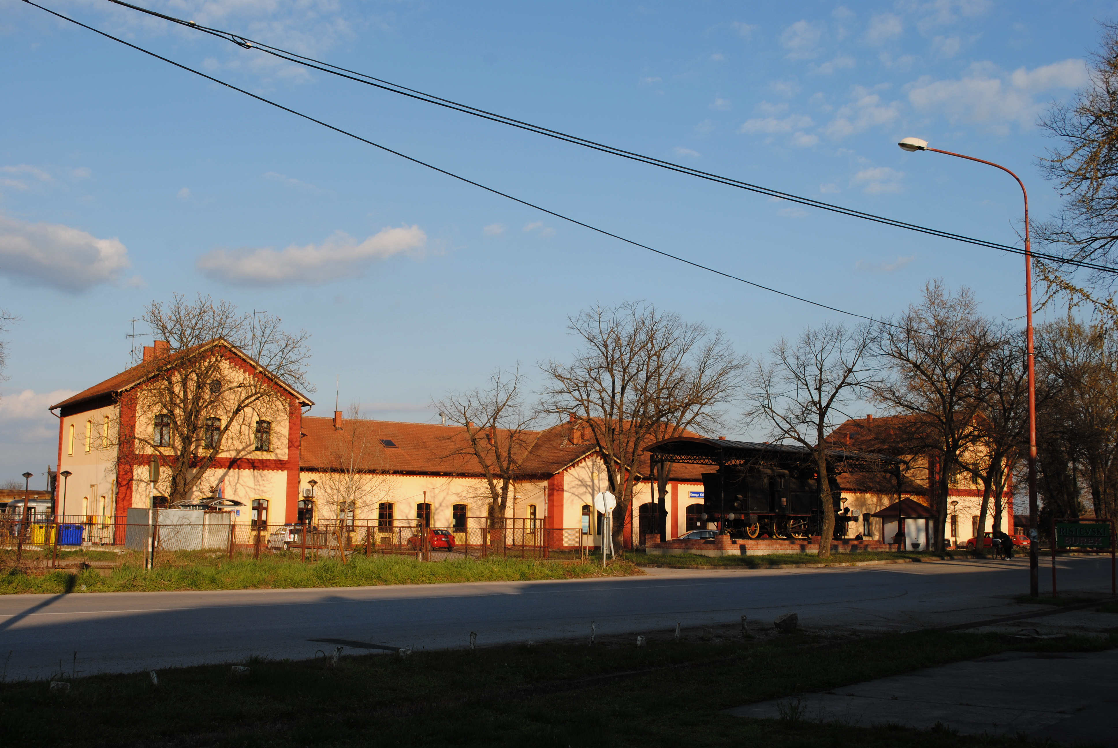 Train station in Kikinda